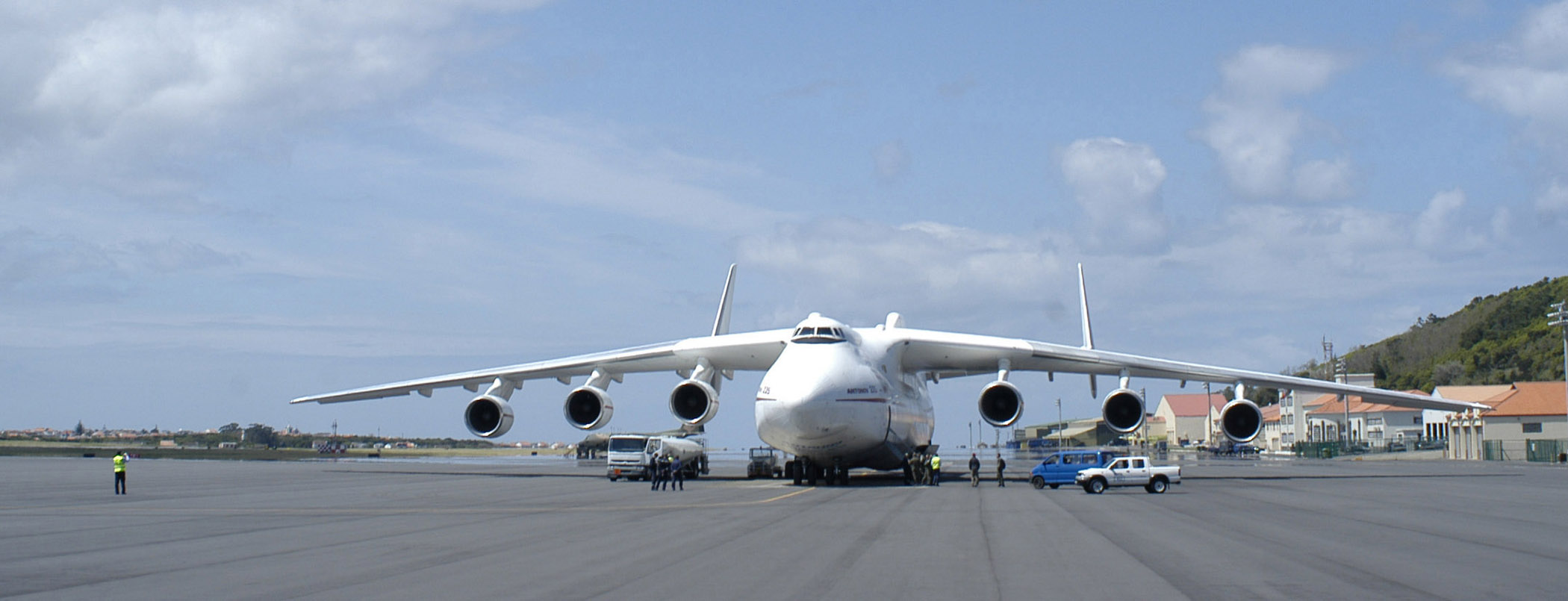 Portuguese and American workers tend to the Antonov An-225 Mriya, or "Dream", April 28 on the flightline at Lajes Field, Azores. The aircraft landed here to refuel and get serviced. Currently the world's largest aircraft, the An-225 was designed mainly to transport the Russian space shuttle and its components from a service area to a launch site.